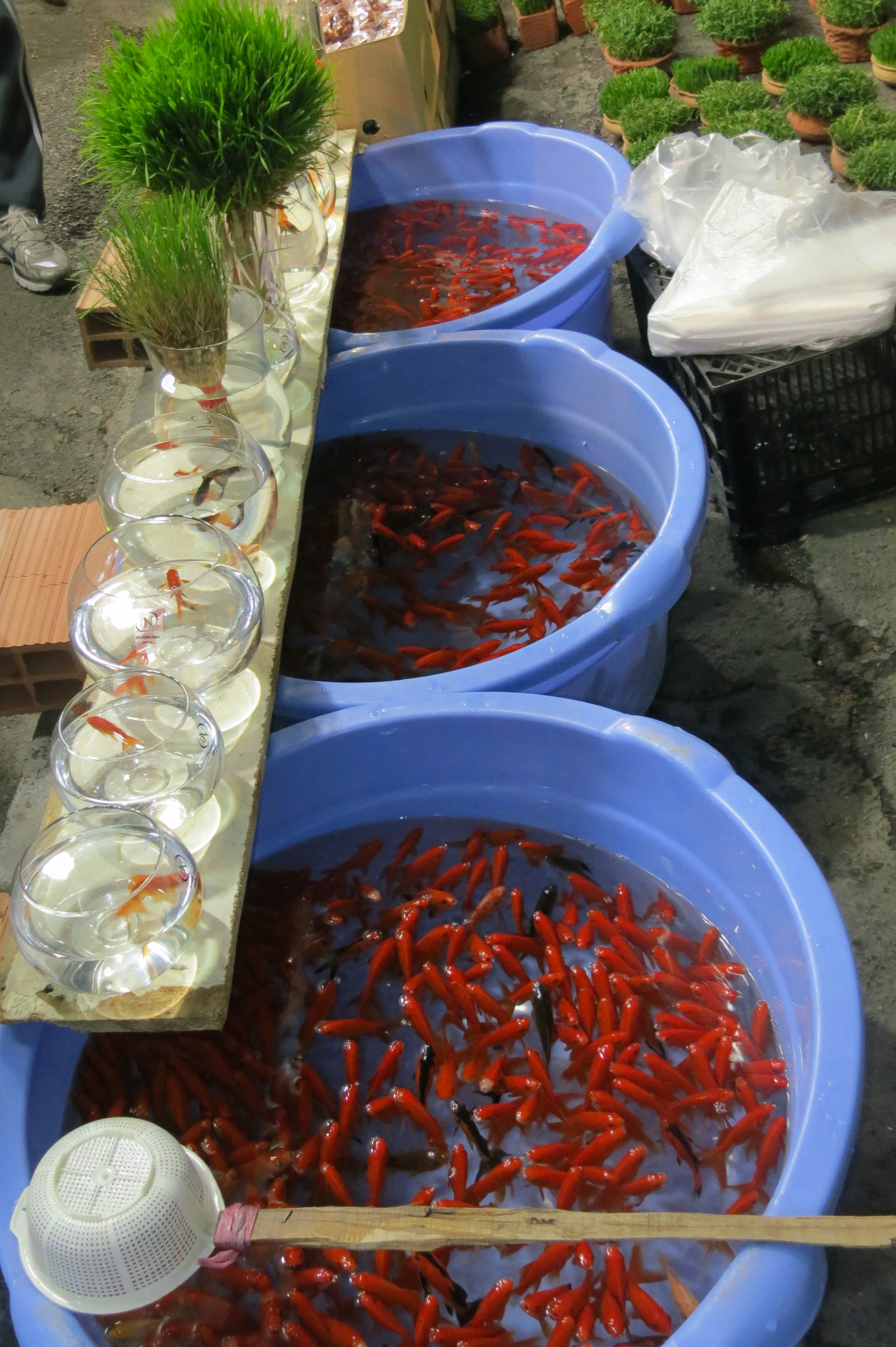 Goldfishes during Nowruz in Tehran, Iran